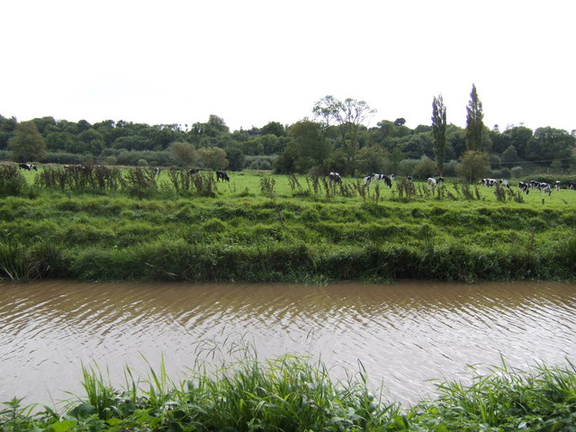 The Ballyrafter Flats, near Lismore The dairy pasture is on the River Blackwater floodplain. The canal in the foreground was built by the Dukes of Devonshire to enable them to trade in timber and coal and to bring in the Derbyshire Gritstone with which the Castle, the old railway station and some other buildings in the town are faced.